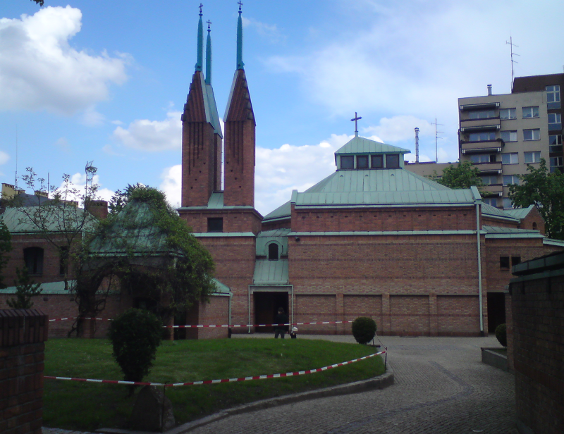 Church of Divine Mercy on Oficerskie housing estate in Cracow.